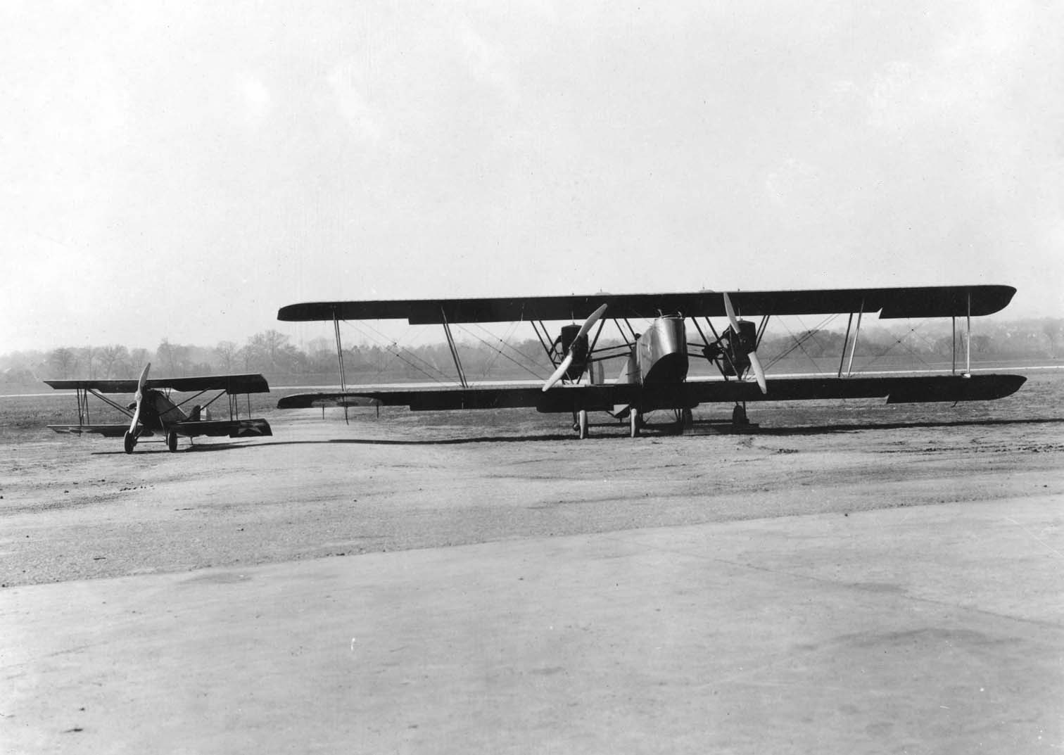 A Martin MB-1 on Luke Field. Photo on a military installation assumed taken by US Army soldier.